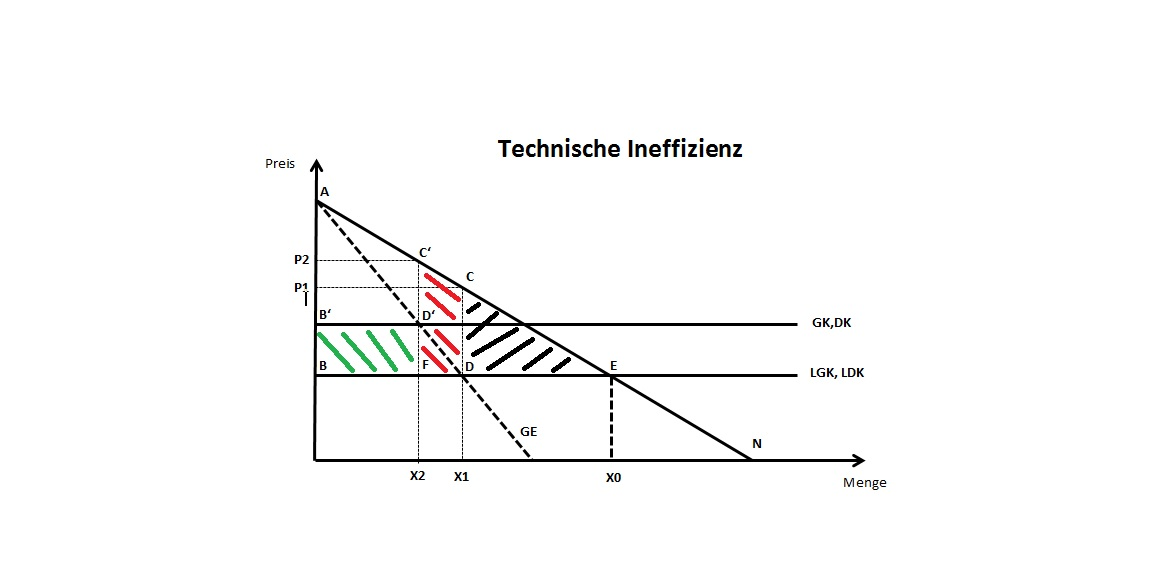 Abb. 2: Eigene Darstellung der technischen Ineffizienz nach Kruse - Anlehnung an: Ökonomie der Monopolregulierung von Jörn Kruse. (1985). Vandenhoeck & Ruprecht